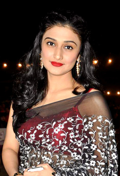 Ragini Khanna at Umang Police Show 2013